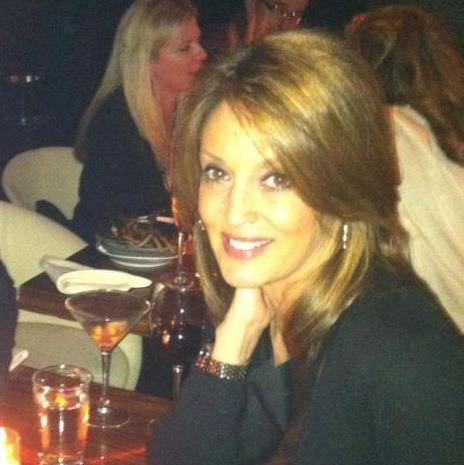 Photo of tv news anchor Susan Roberts